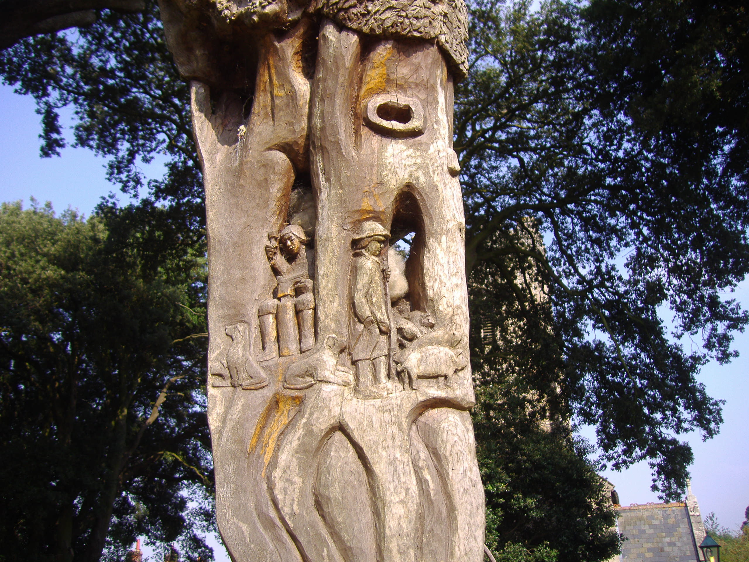 Close up of the carving on the Bale Village sign which has a depiction of the Bale Oak